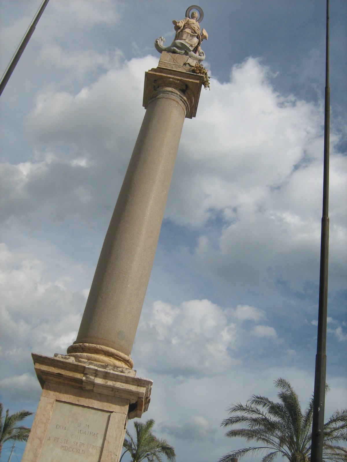 column of St.Agatha (post 1745)